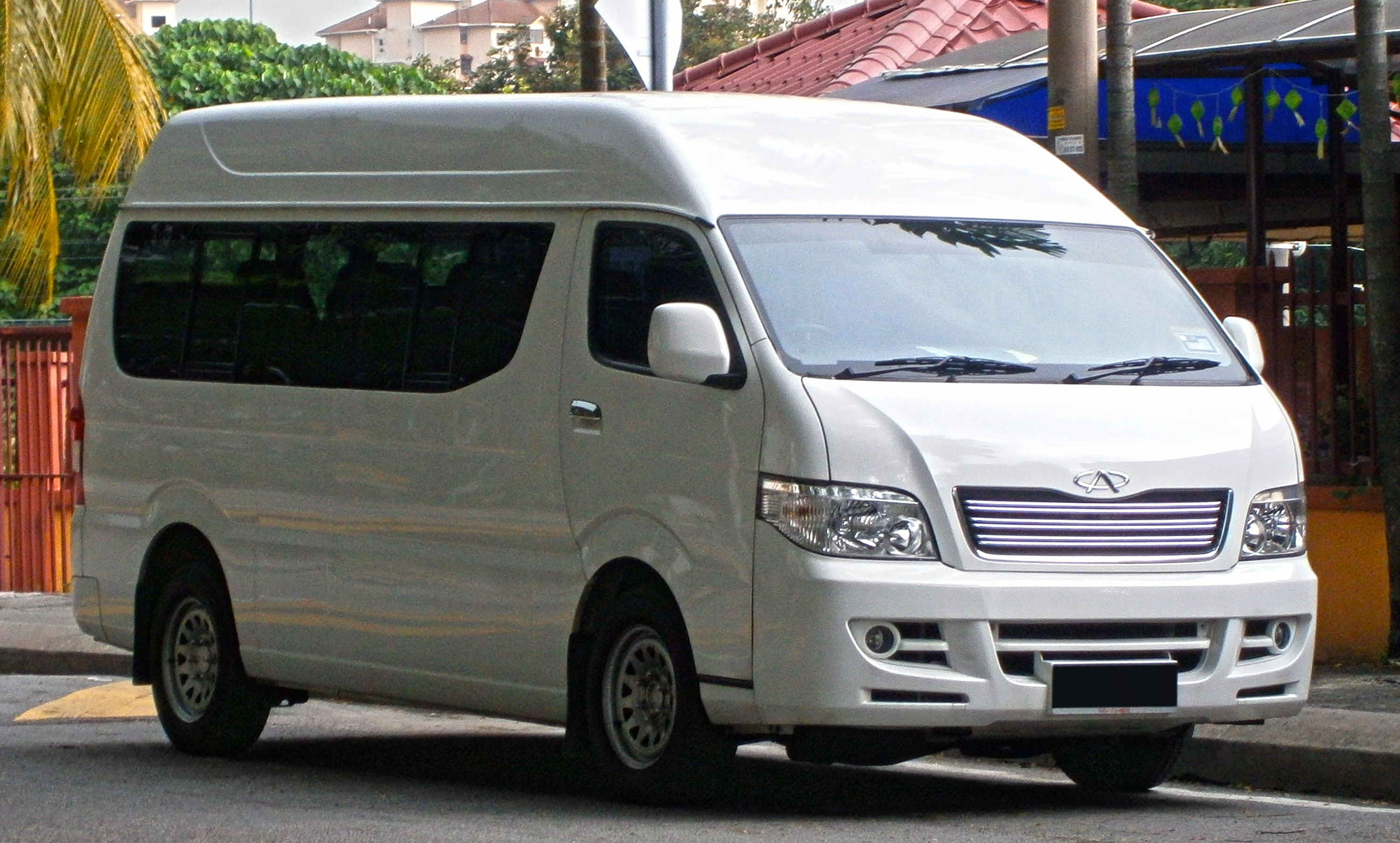 2013 Chery Transcom 2.0 TCi in Petaling Jaya, Malaysia.